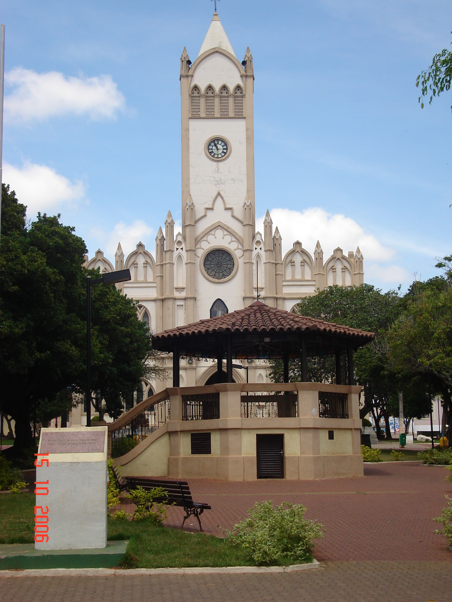 View of the bandstand and the church of São Miguel Arcanjo, São Miguel Arcanjo, São Paulo, Brazil